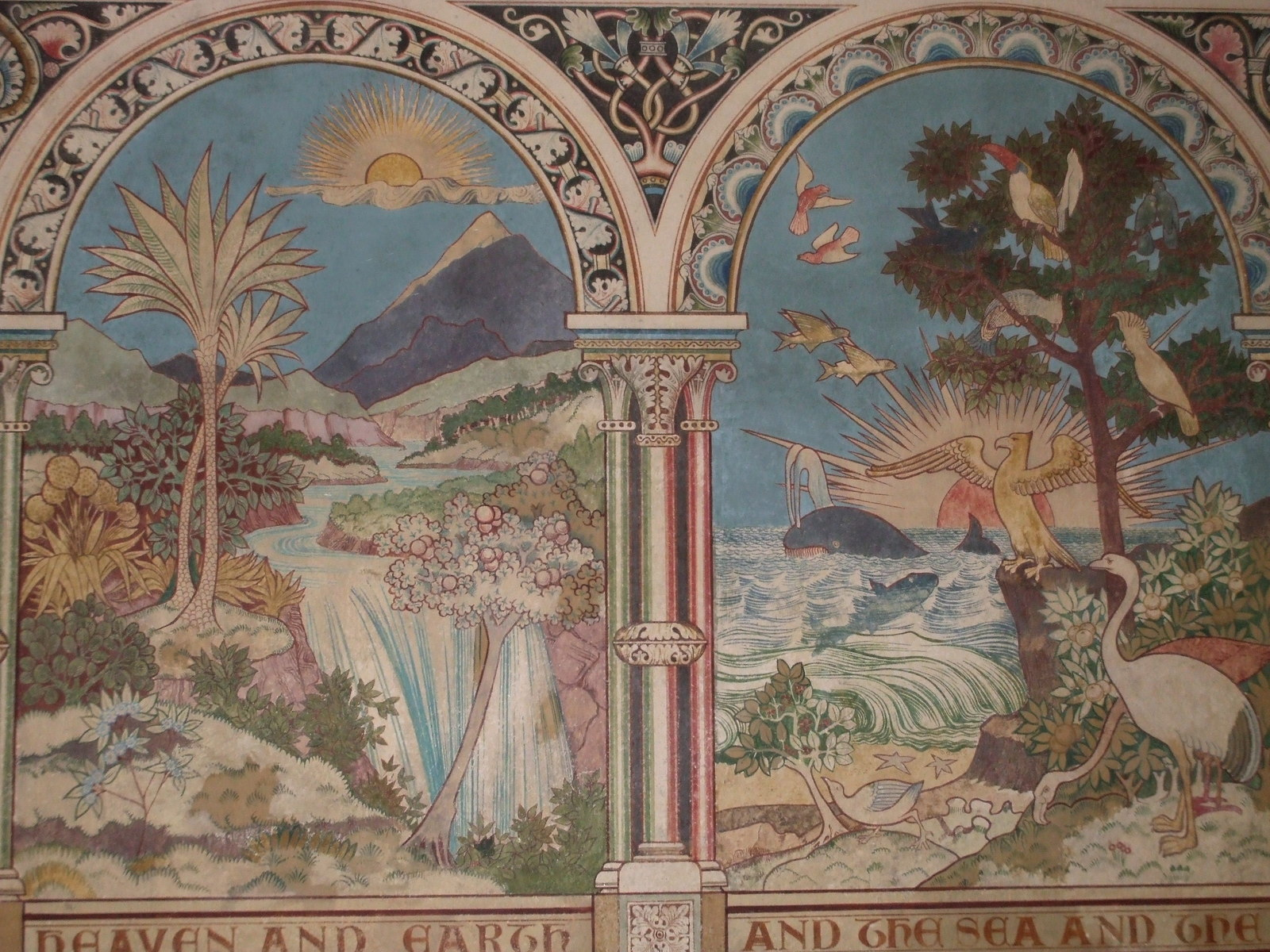 Mural, St. Michael's, Garton on the Wolds